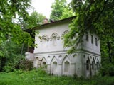 Садиба Кочубея